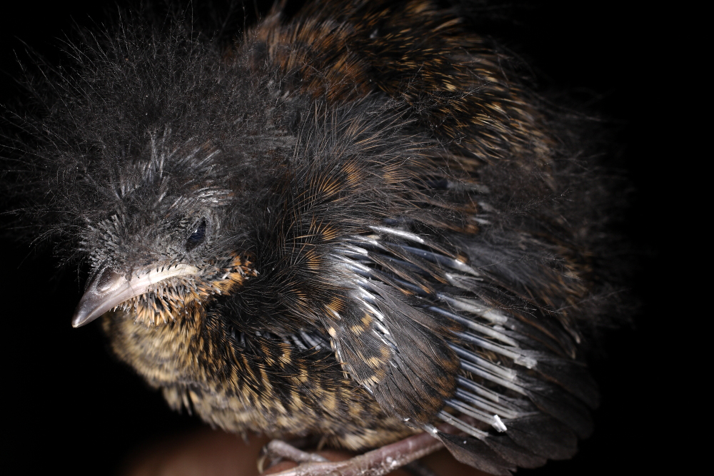 Nestling Scytalopus perijanus (Perija Tapaculo)